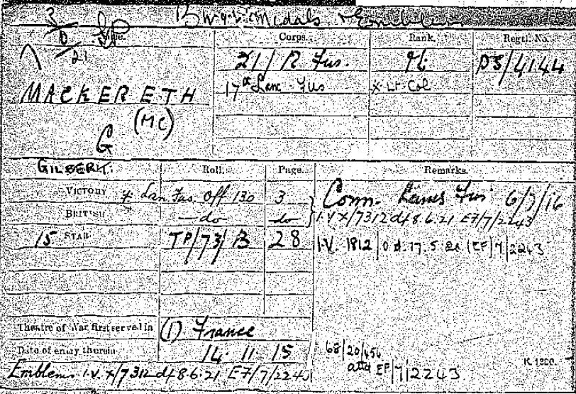 Reproduction of Medal Card for Gilbert MacKereth WO 372/13 Reproduction by Rovington® from sheet of six of Medal Card for Gilbert MacKereth World War One 1914 to 1918 WO 372/13 Sir Gilbert MacKereth first arrived at France 14 November 1915, he appears on two medal rolls, he won the Victory Medal, the British War Medal and the 1914 Star, the MC denotes the Military Cross, Commisioned Lancashire Fusilers 6 July 1916. The Victory Medal and the British War Medal are on one roll, and the Star on another. Note that the "do...do" against the British War Medal means "ditto...ditto". He was Mentioned in Despatches. For service in the Great War an oak leaf emblem could be worn with the ribbon of the Victory Medal, denoting his Mention.